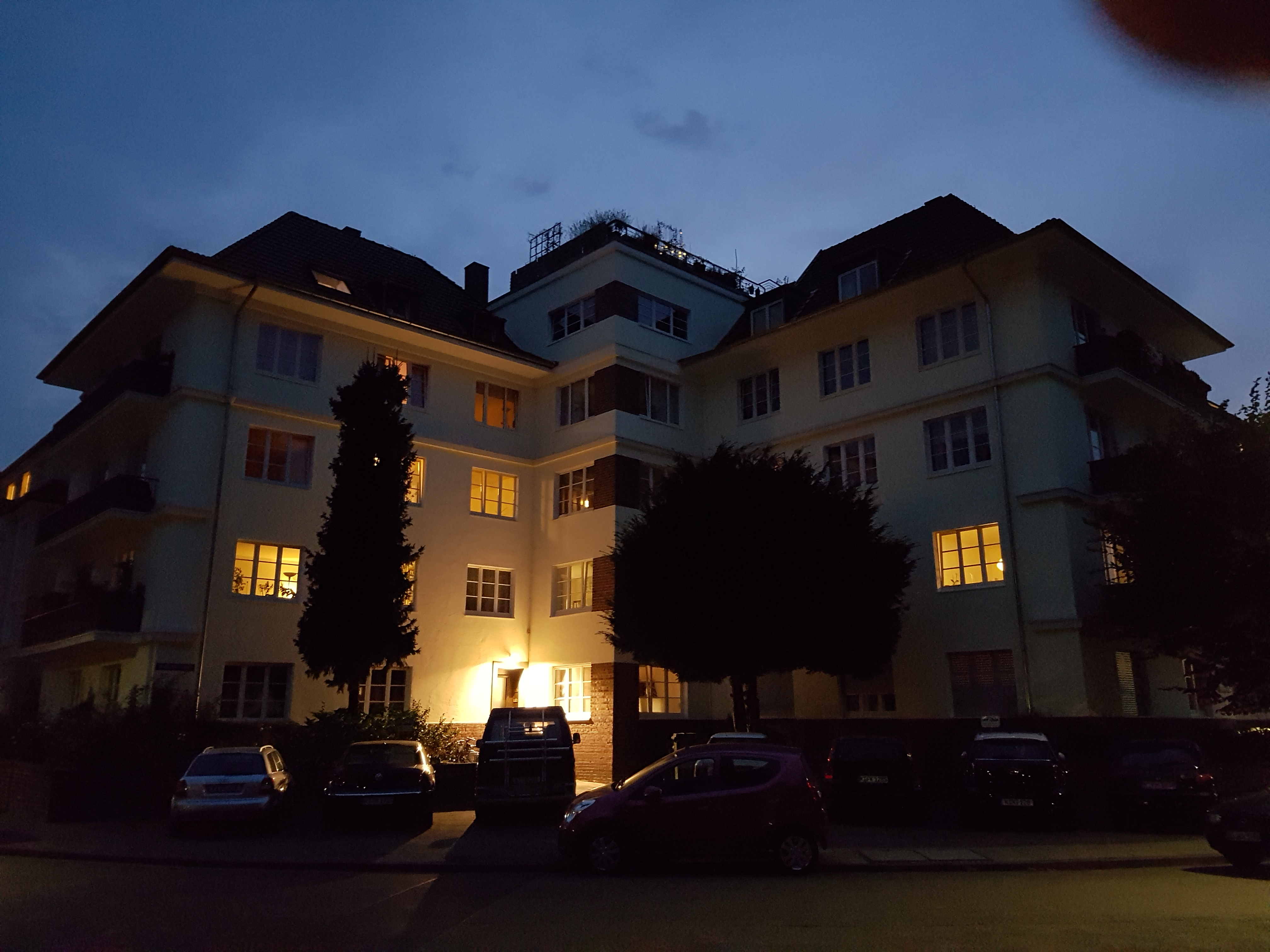 This is a photograph of an architectural monument., no. 8596